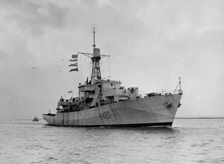 Photograph of British Castle class corvette HMS Kenilworth Castle (K420) underway on the River Tees.